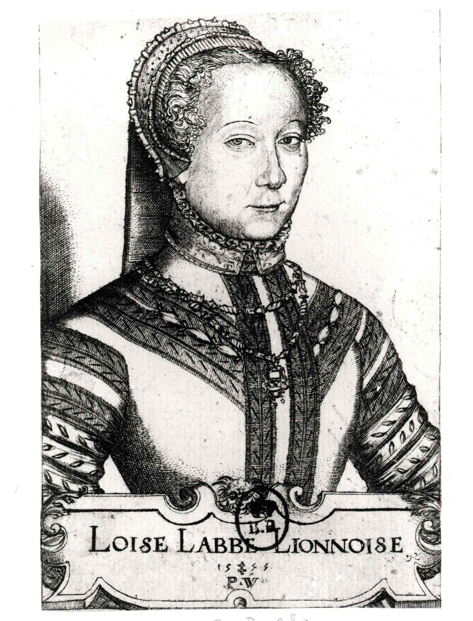 Engraving of Louise Labé/Loise Labbe (1522-1566), French poet